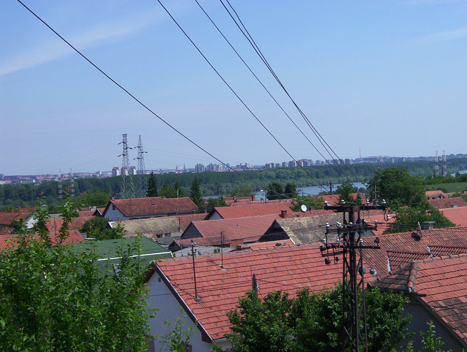 Image of Ledinci village near Novi Sad